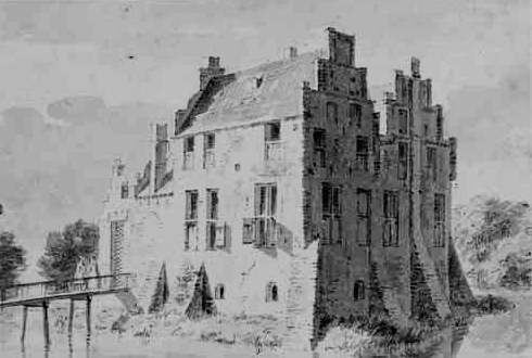 Castle Waliën, Winterswijk